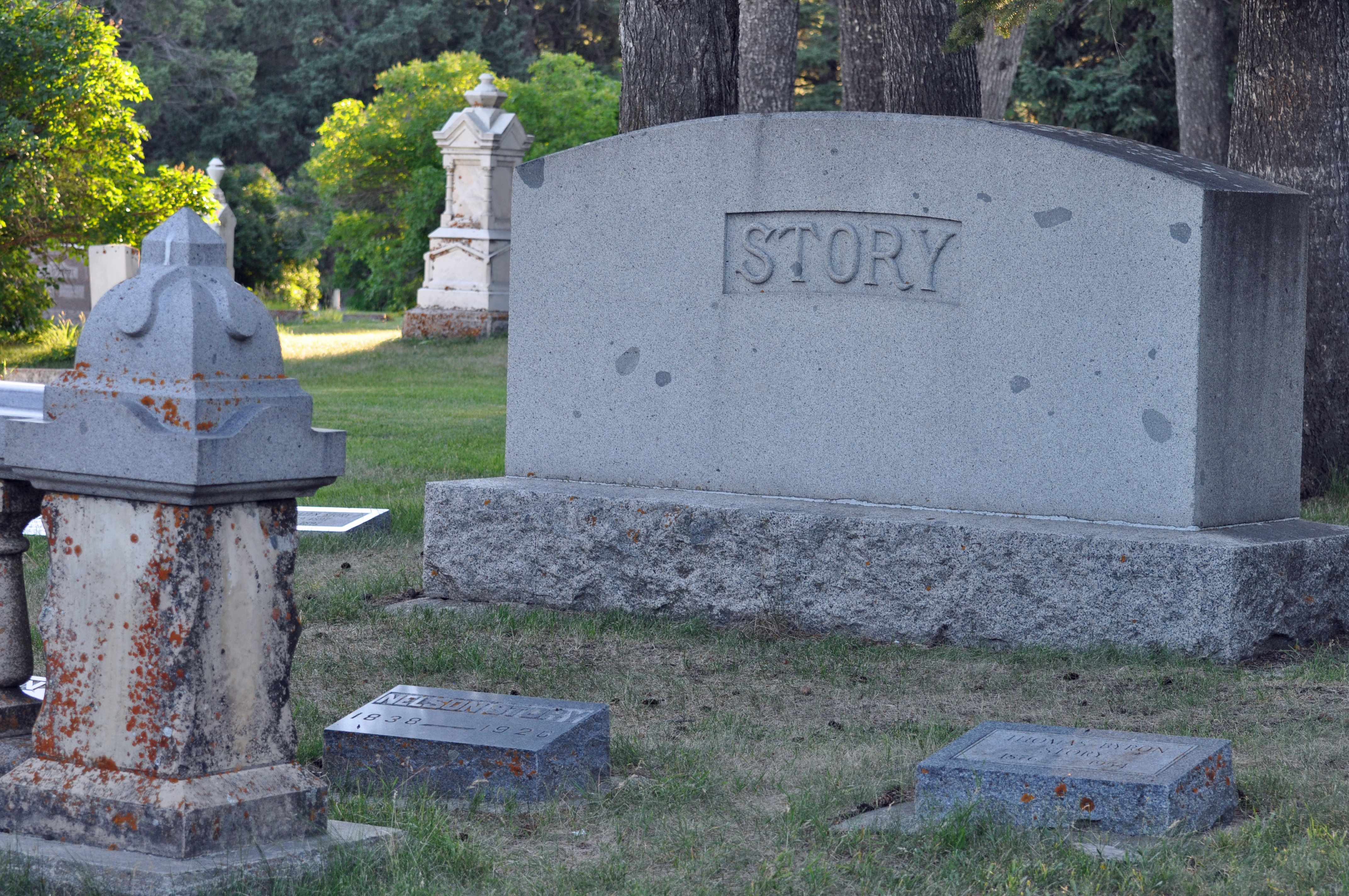 Story gravesite, Sunset Hills Cemetery, Bozeman, MT - Nelson Story grave front left.